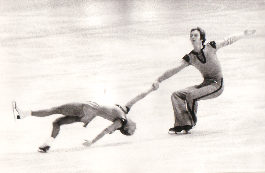 Romy Kermer and Rolf Oesterreich in 1976 Photo was made by Hella Höppner. Permission was granted to publish this here under the selected licence.